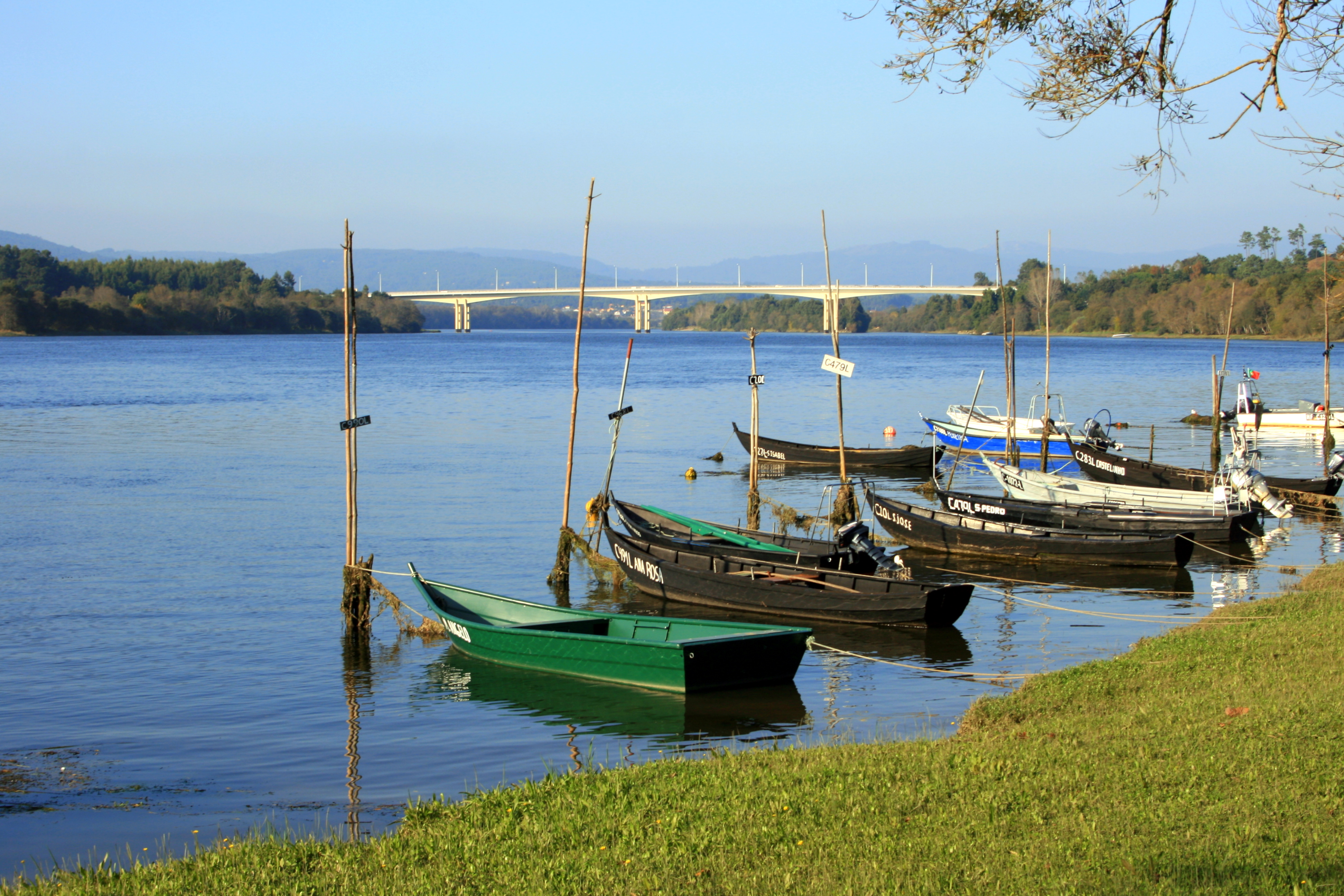 Boats in Minho river (río Miño), in the port of Vila Nova da Cerveira.